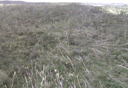 Some of the millions of trees that were blown down in the Boundary Waters on July 4, 1999.